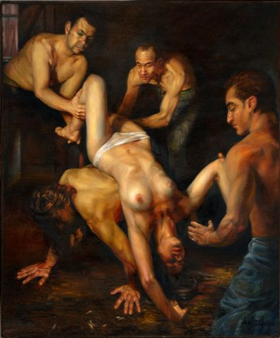 Artwork "Woman" is painted by Estonian artist Nelly Drell